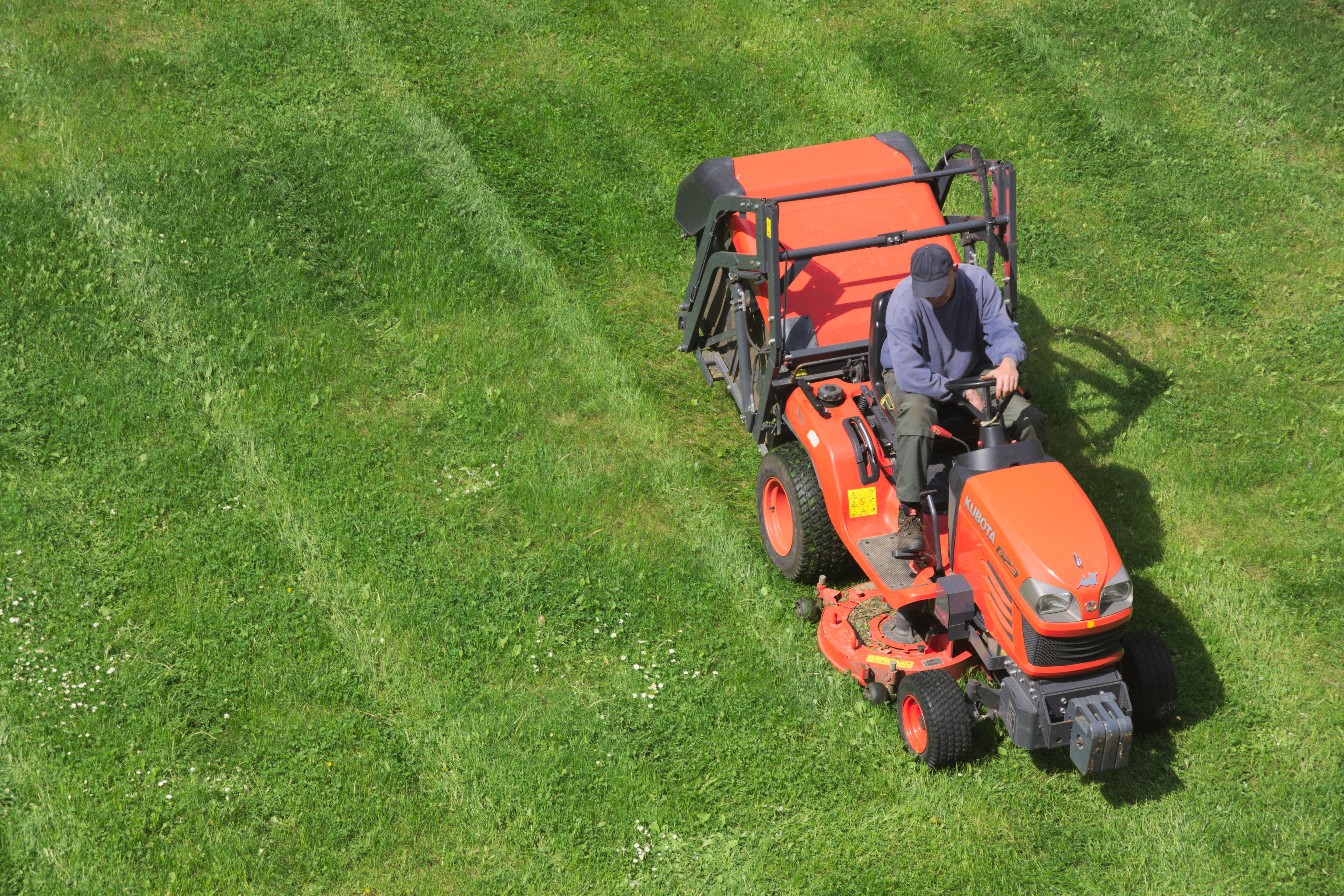 This photo of a riding mower was taken at Belvedere on the Pfingstberg palace in Potsdam, Germany